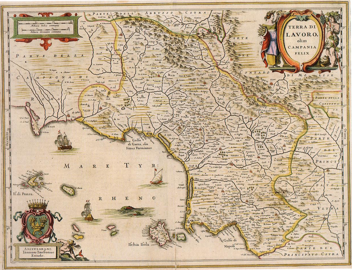 J. Jansson, "Terra di Lavoro olim Campania Felix" from "Atlantis majoris", Amsterdam 1660